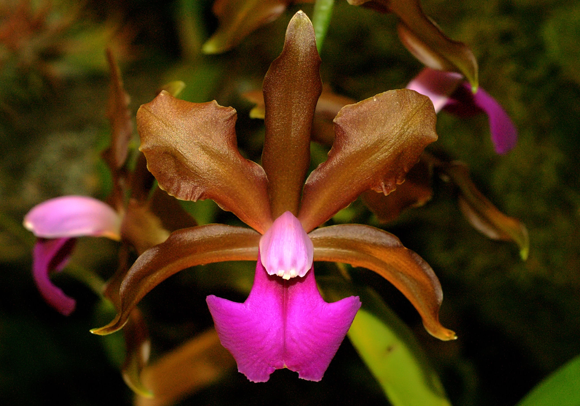 Cattleya bicolor